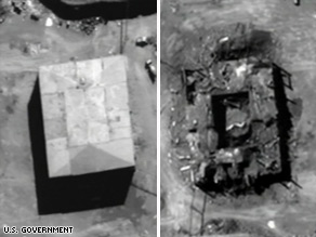 Before and after picture of building struck during Operation Orchard in Syria... ((one of the photos should be rotated 180 degrees))